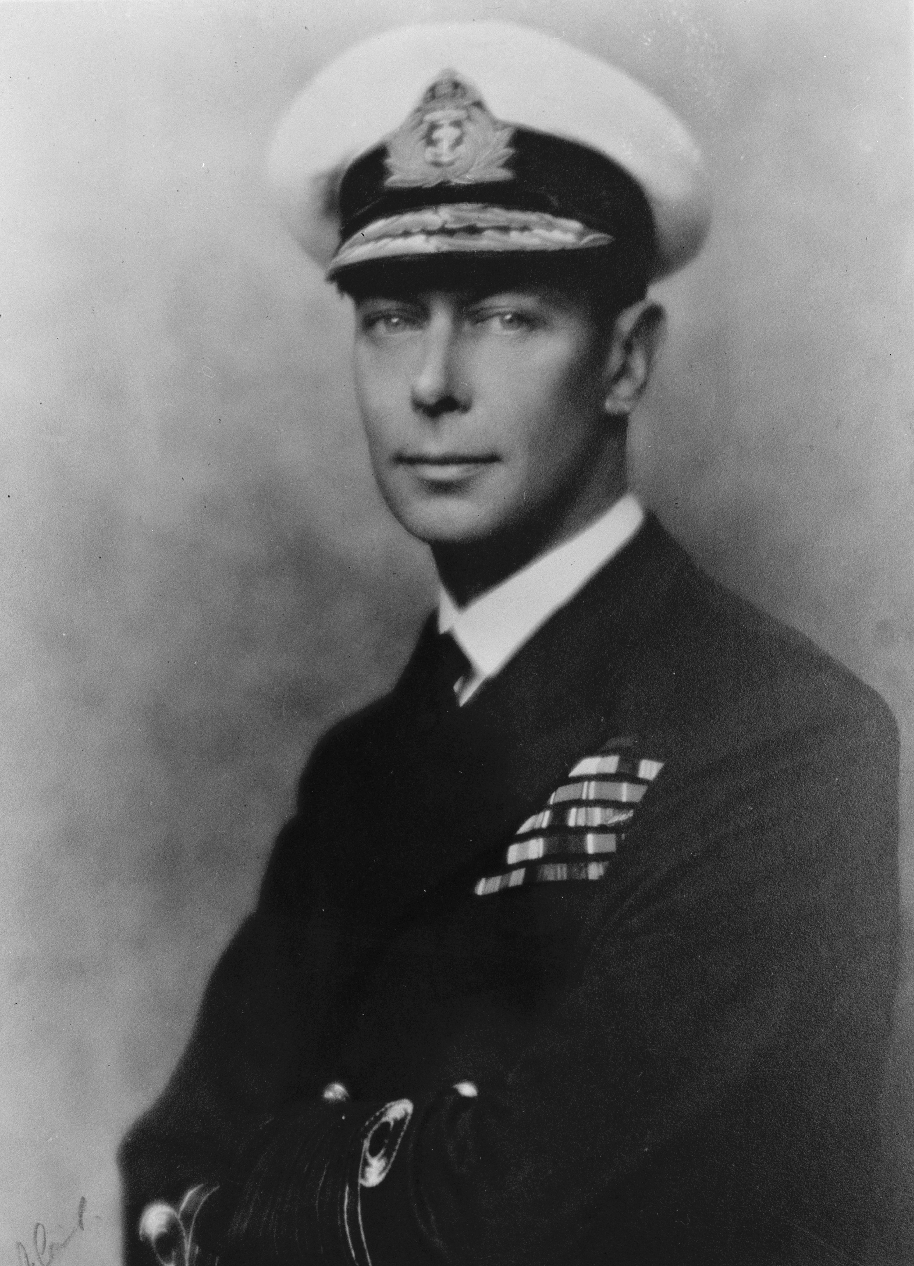 His Majesty King George VI of the United Kingdom.